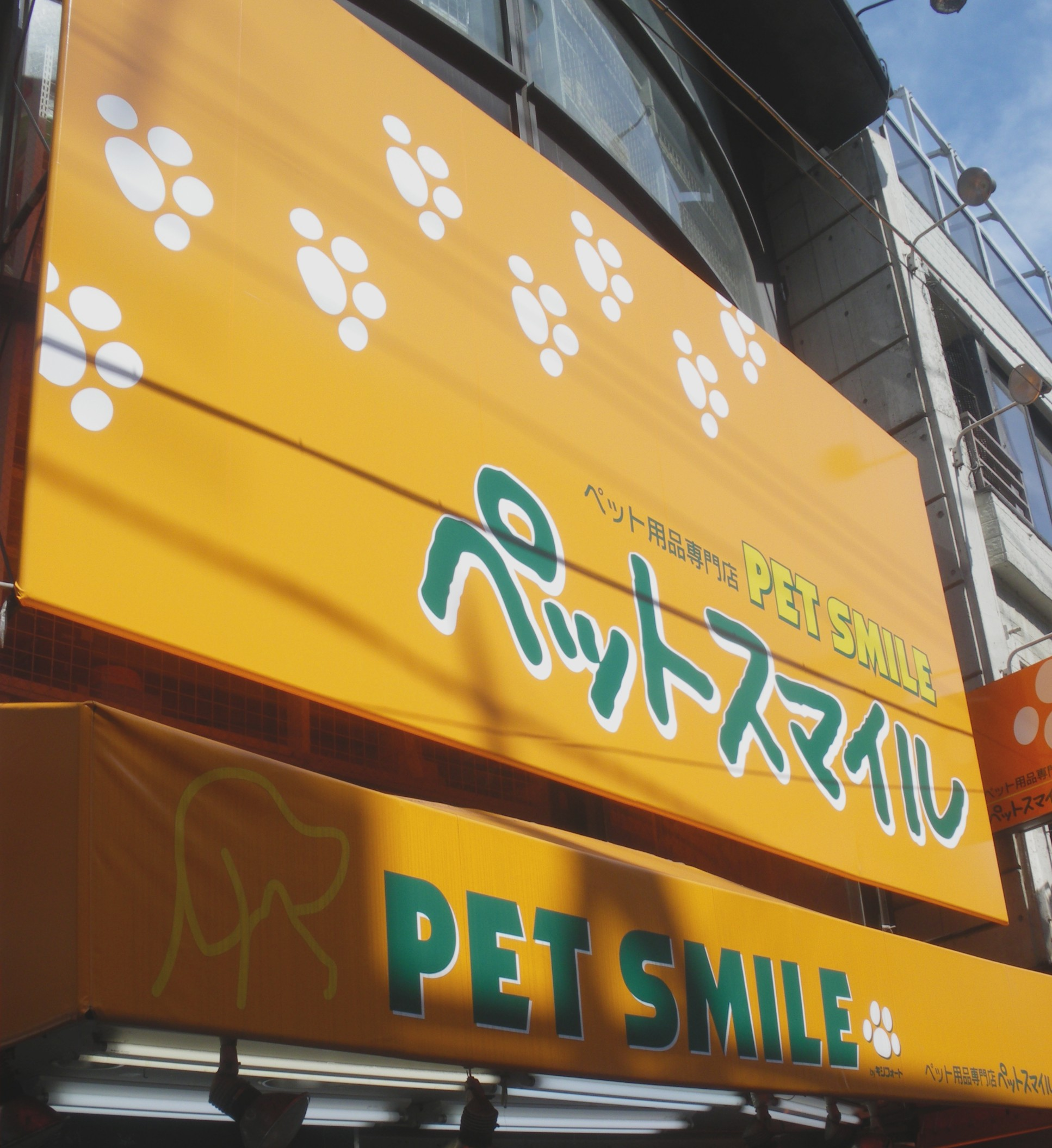 Pet Smile Shimokitazawa branch store (Setagaya,Tokyo)